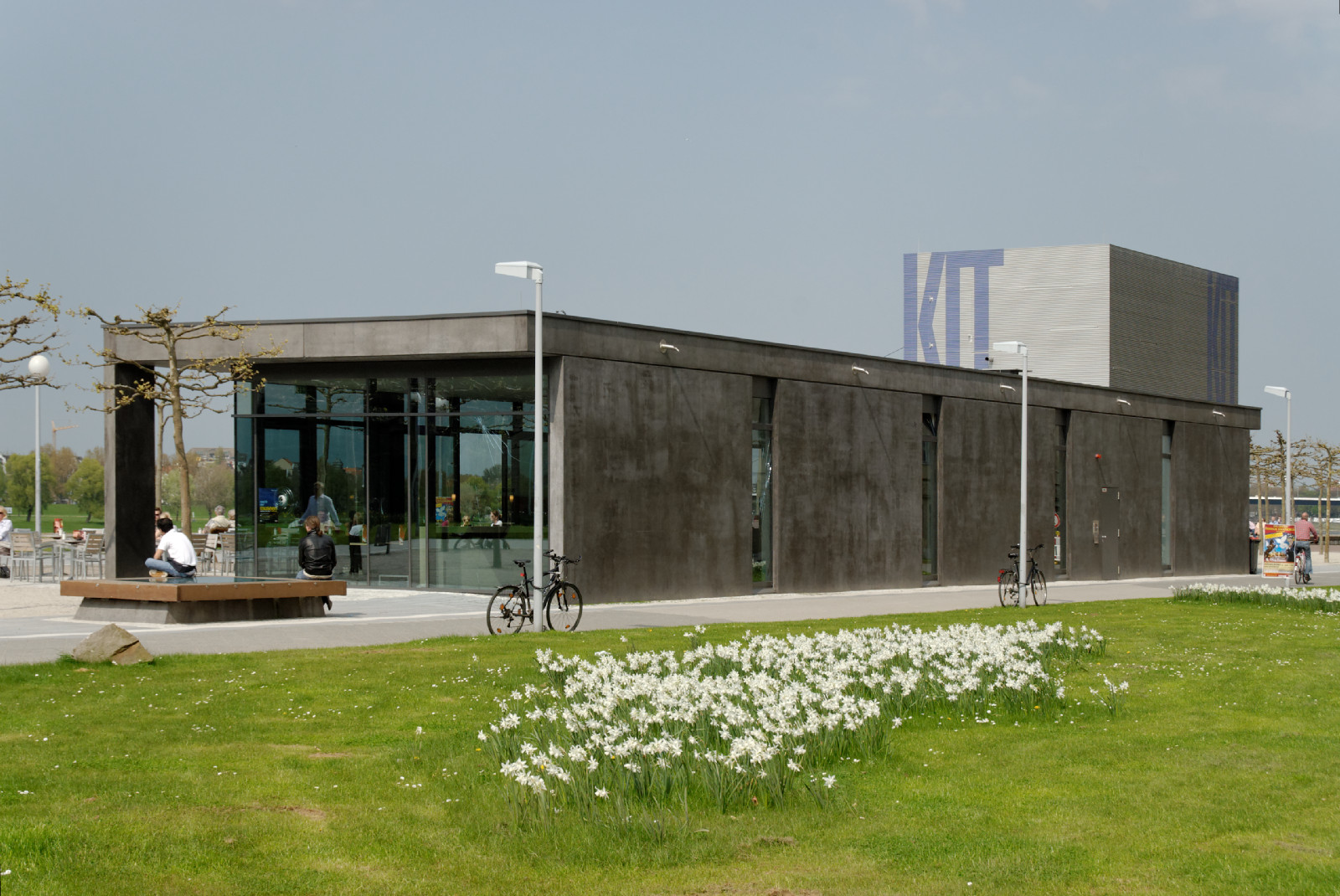 KIT in Düsseldorf-Carlstadt, Germany